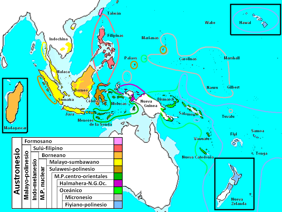 Austronesian languages